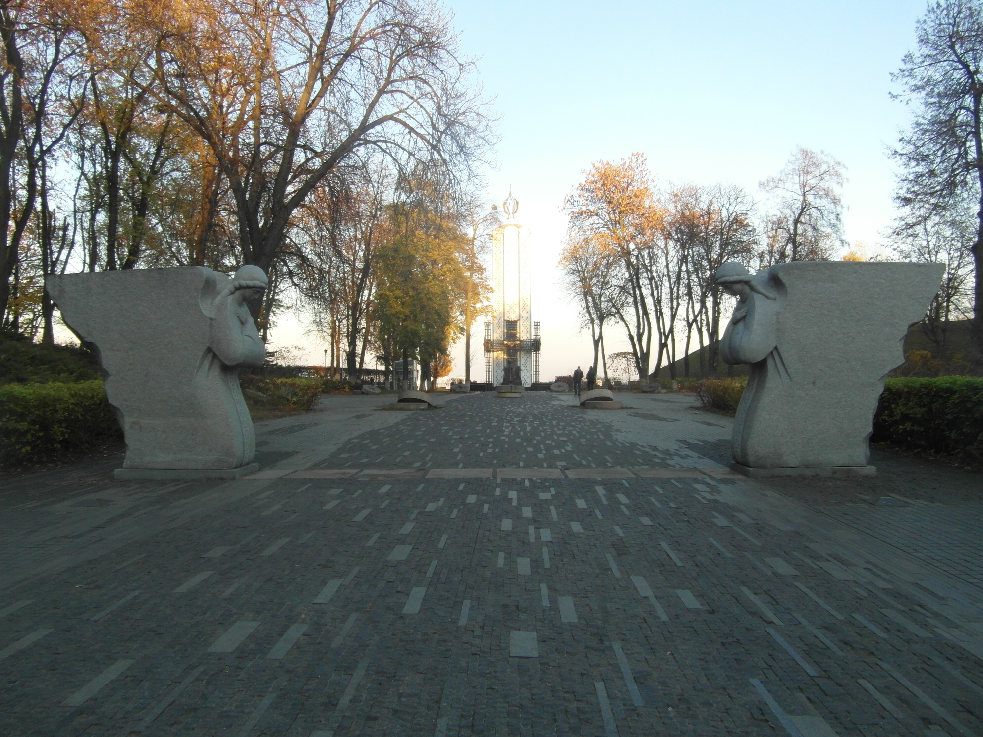 Kyiv Museum of Great Hunger